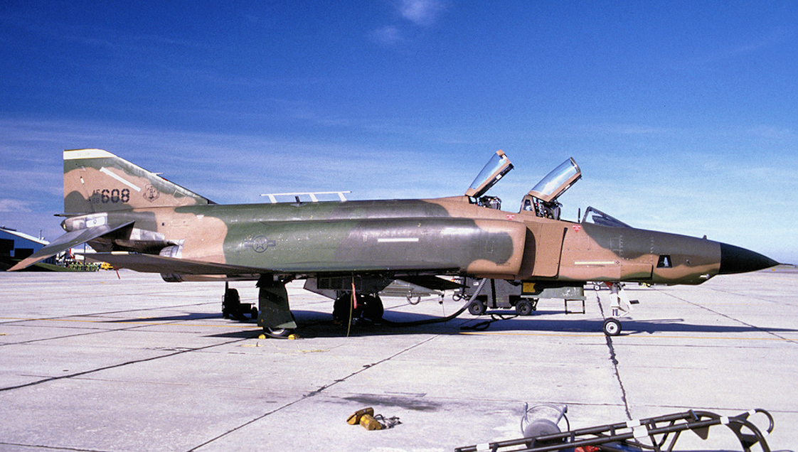 190th Tactical Reconnaissance Squadron McDonnell Douglas RF-4C-40-MC Phantom 68-0608. Note lack of tail code. Retired to AMARC as FP0206 in 1991. Still on AMARC inventory Jan 15, 2008.